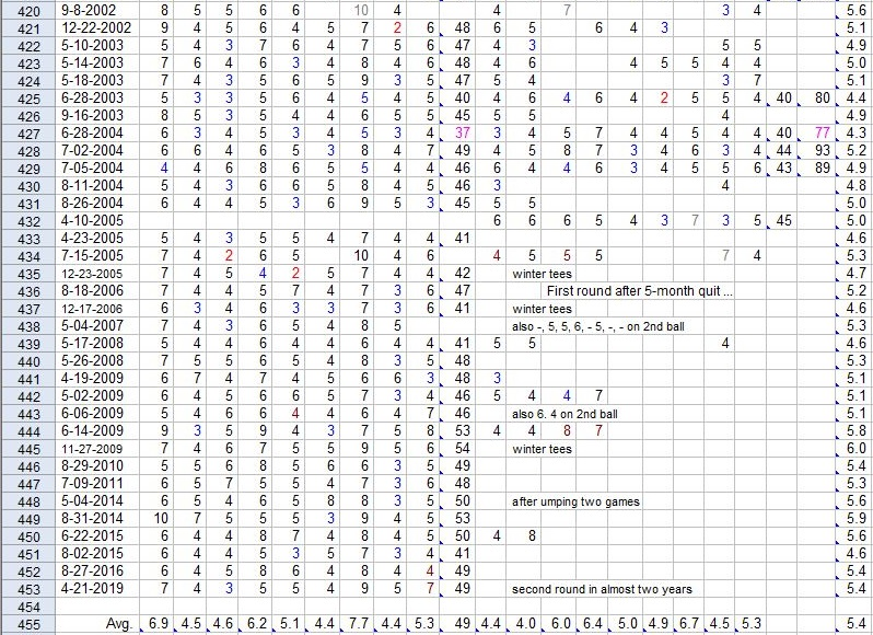 Portion of a spreadsheet made by Corel Quattro Pro X5 for Windows.